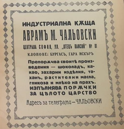 Avram Chalyovski Advertisment